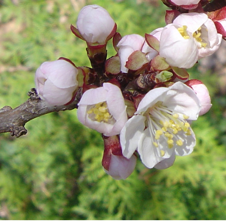 Cultivated plant, Bombus sp., Ontario, Canada